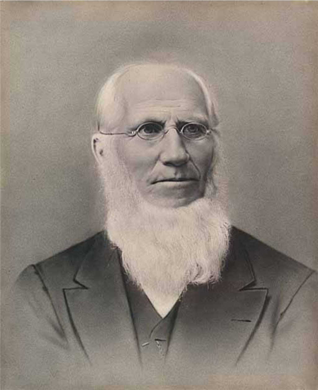 Henry Van Asselt (1817-1902) was a Dutch immigrant to the United States of America, one of the first to settle the area that is now Seattle, Washington.